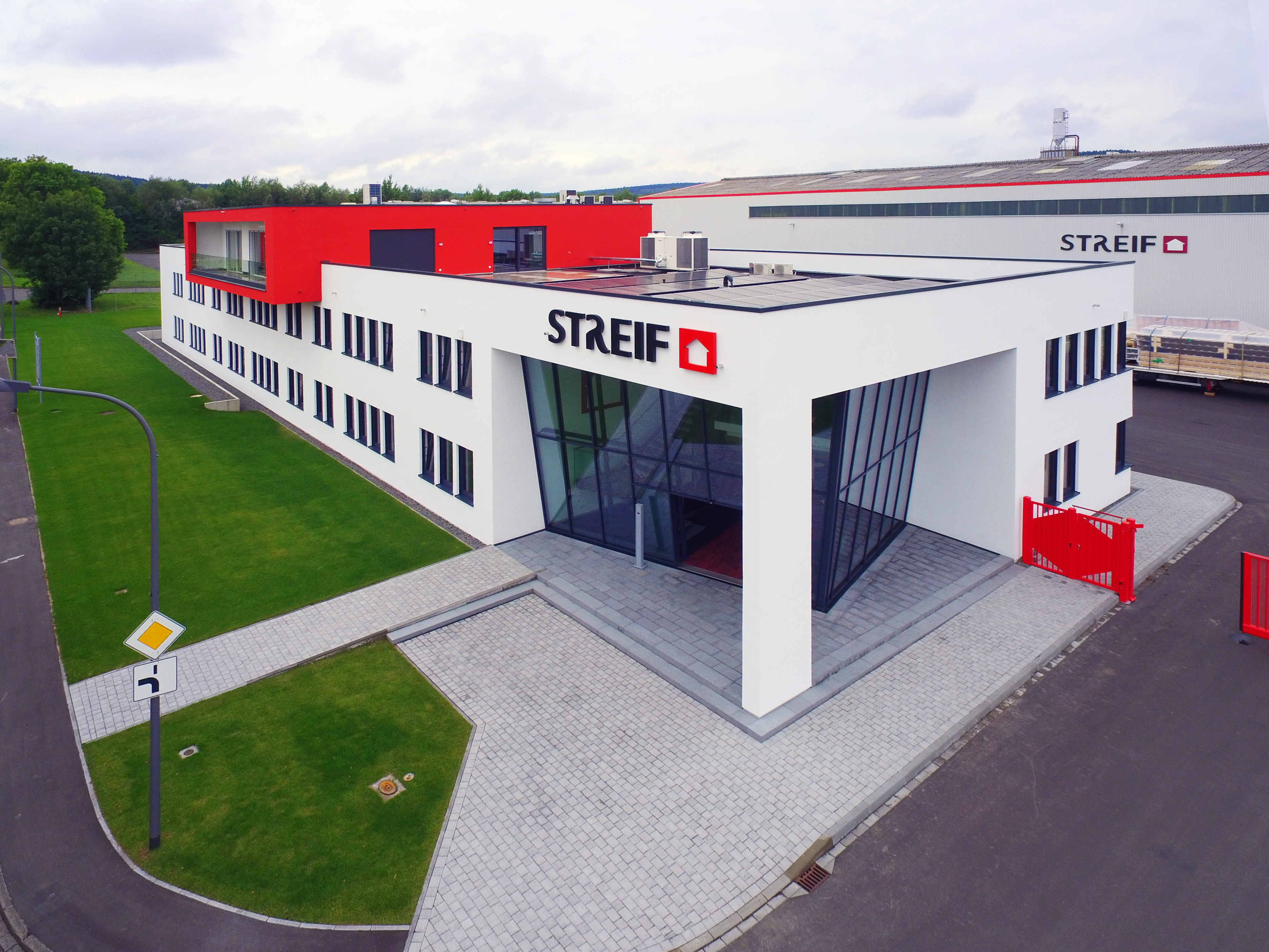 Seat of STREIF Haus GmbH in Rhineland-Palatinate, Weinsheim